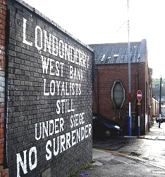 The Fountain--A Loyalist neighborhood in Derry.